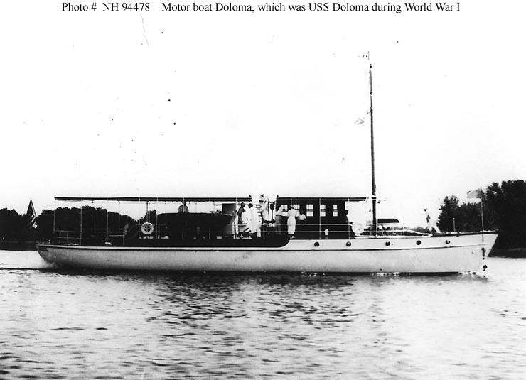 The private motorboat Doloma sometime prior to her United States Navy service as the patrol vessel